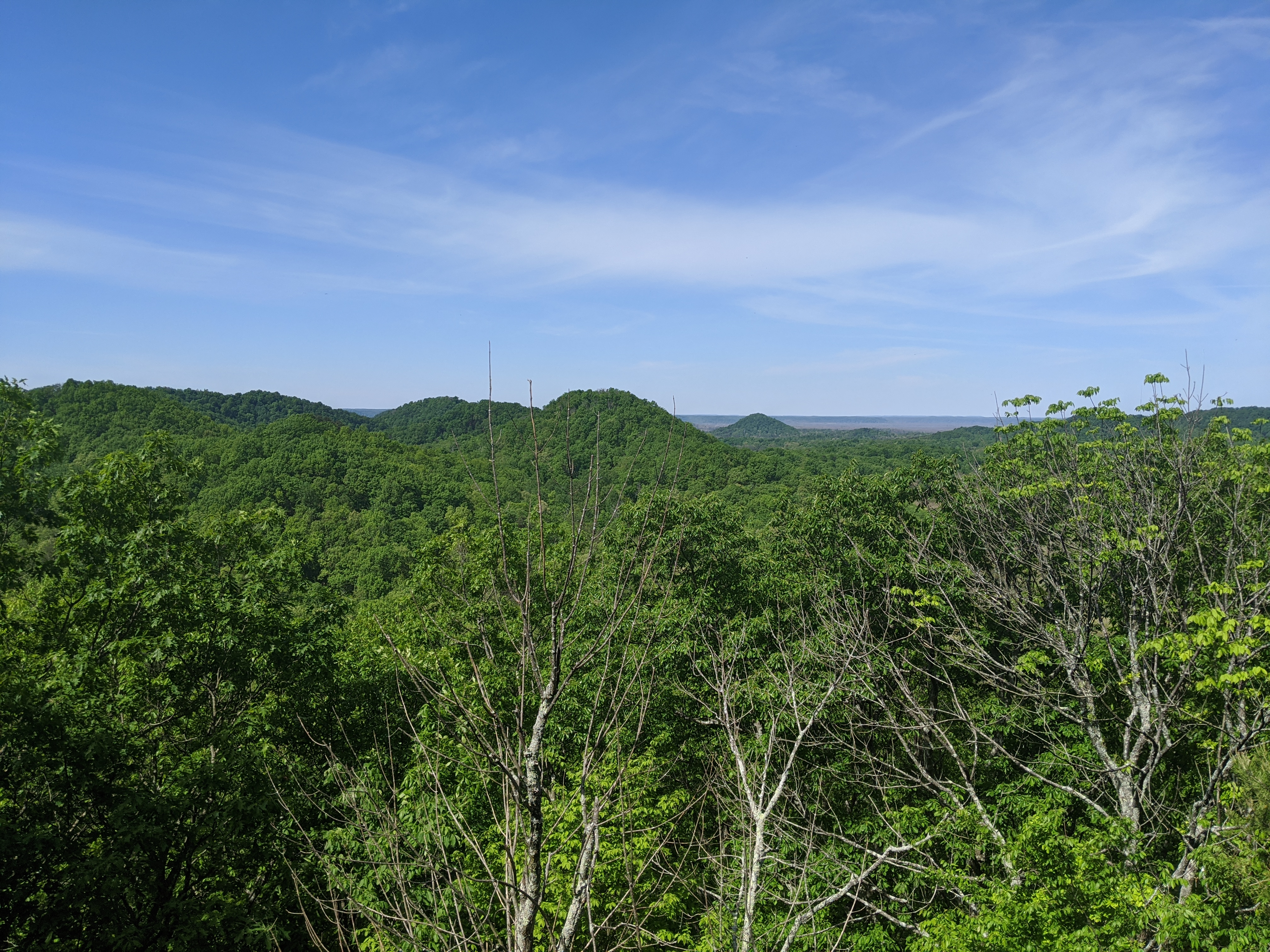 Terminus of the orange trail at Knobs State Forest and Wildlife Management Area. Top of a Knob approximately 920 feet above sea level